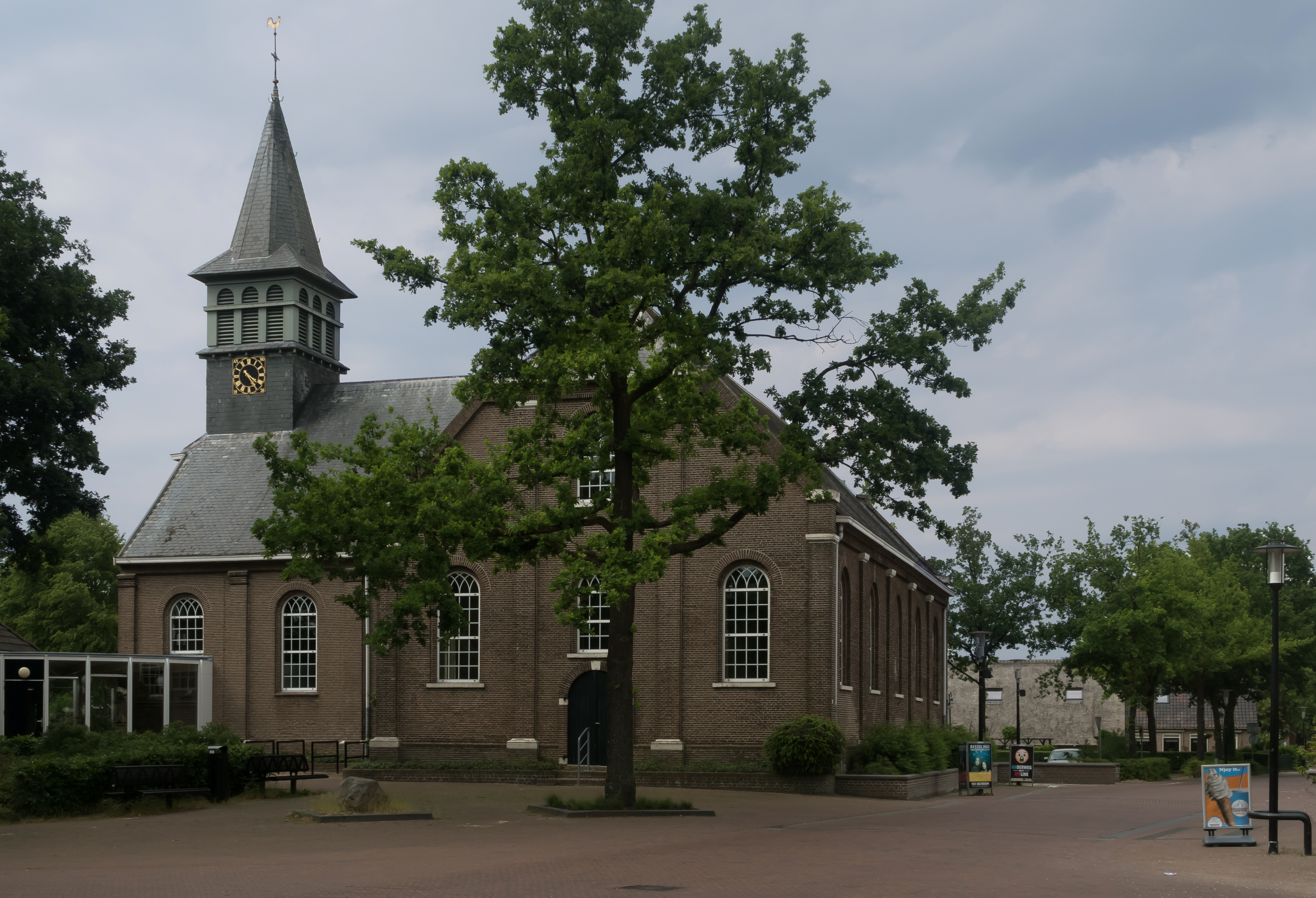 Zuidwolde, reformed church